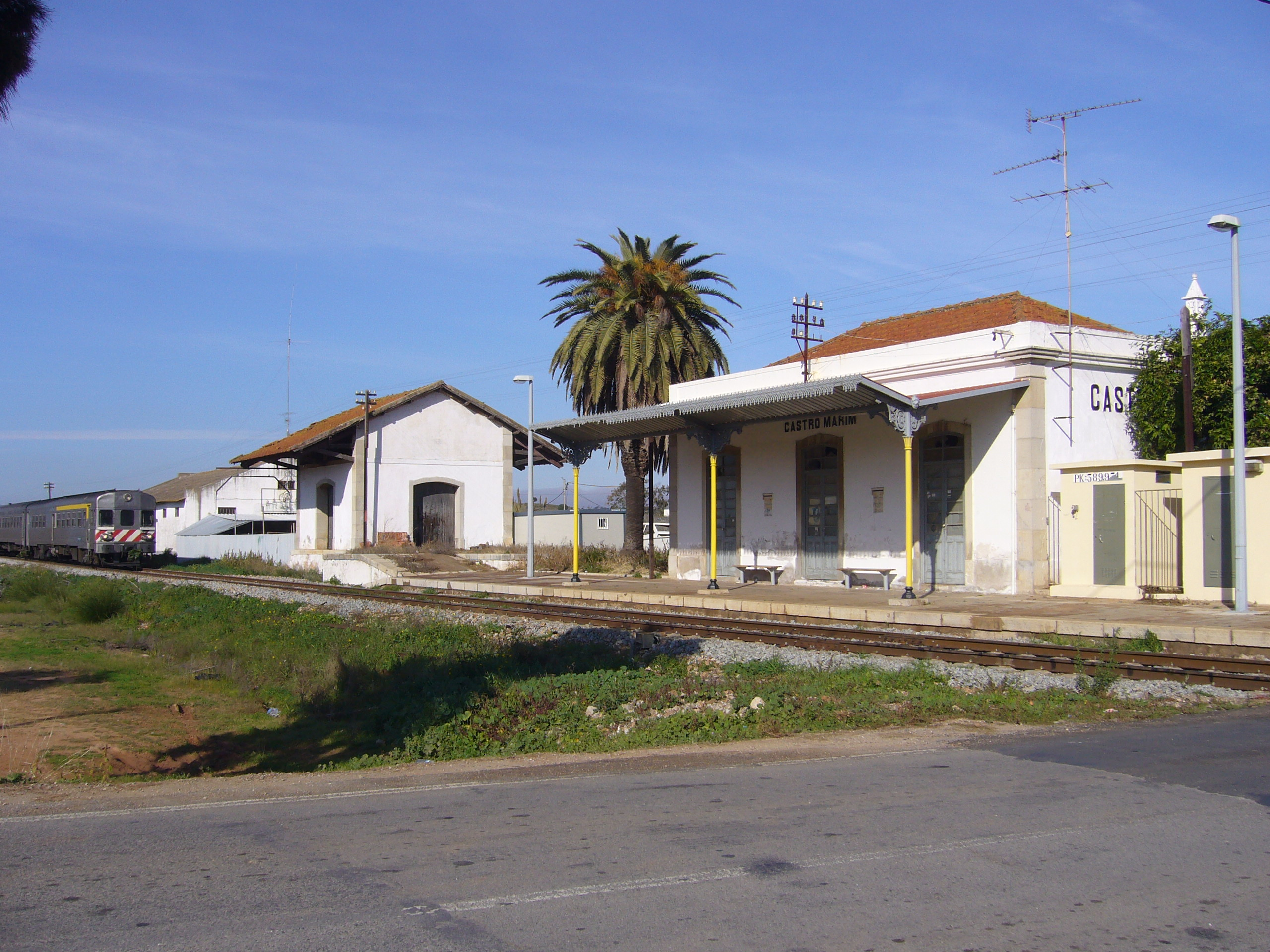 Castro Marim railway station, Algarve, Portugal. More images from this source. Curious CGI view.